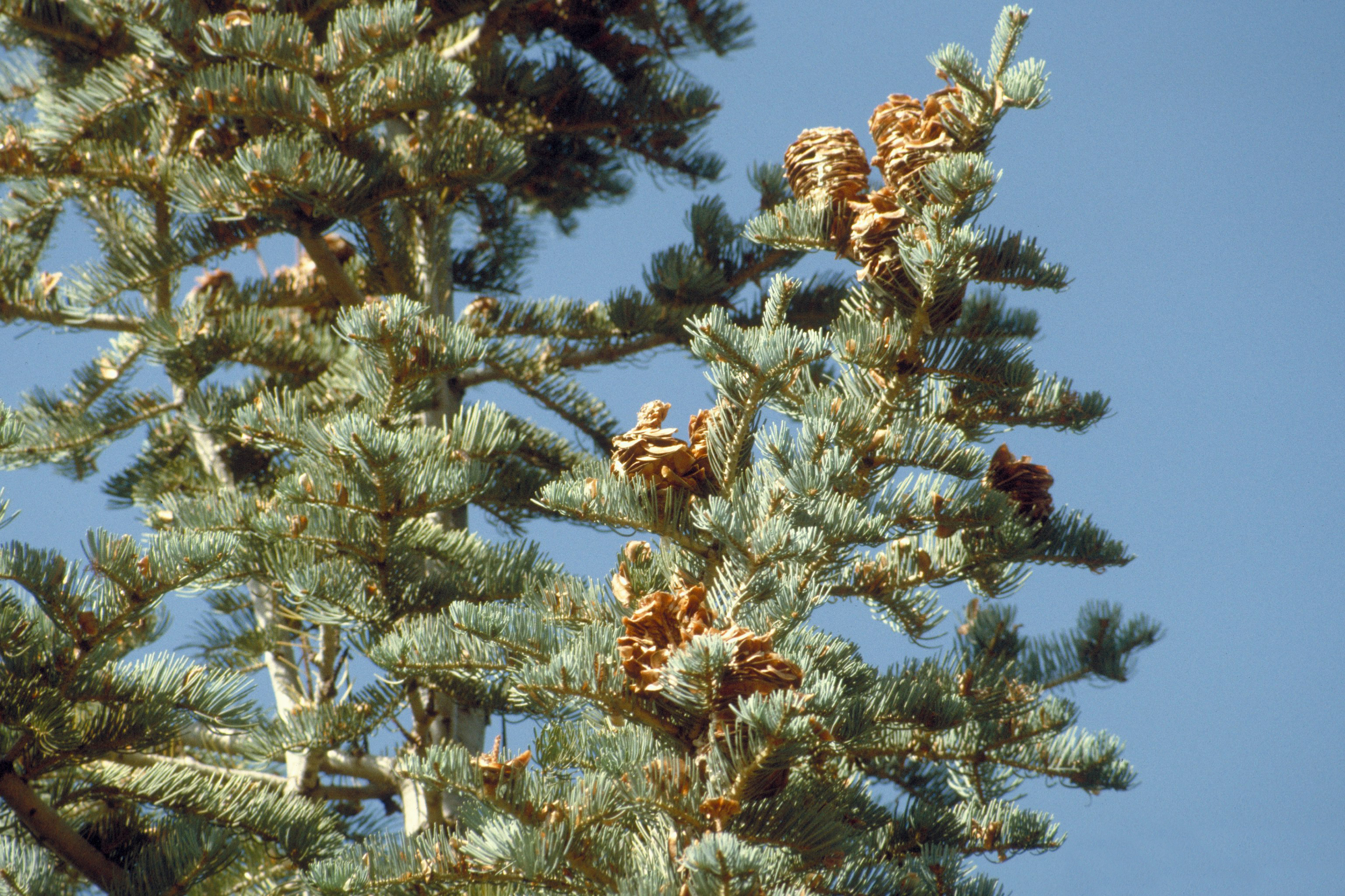 Abies concolor foliage and disintegrating mature cones